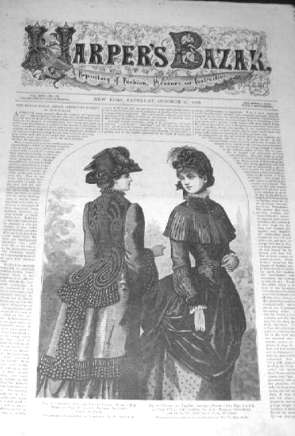 cover of Harper's Bazar magazine, USA